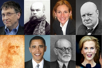 Eight people who are left-hand. From left to right, up to down : Bill Gates, Paul Verlaine, Julia Roberts, Winston Churchill, Leonardo da Vinci, Barak Obama, Sigmund Freud, Nicole Kidman.